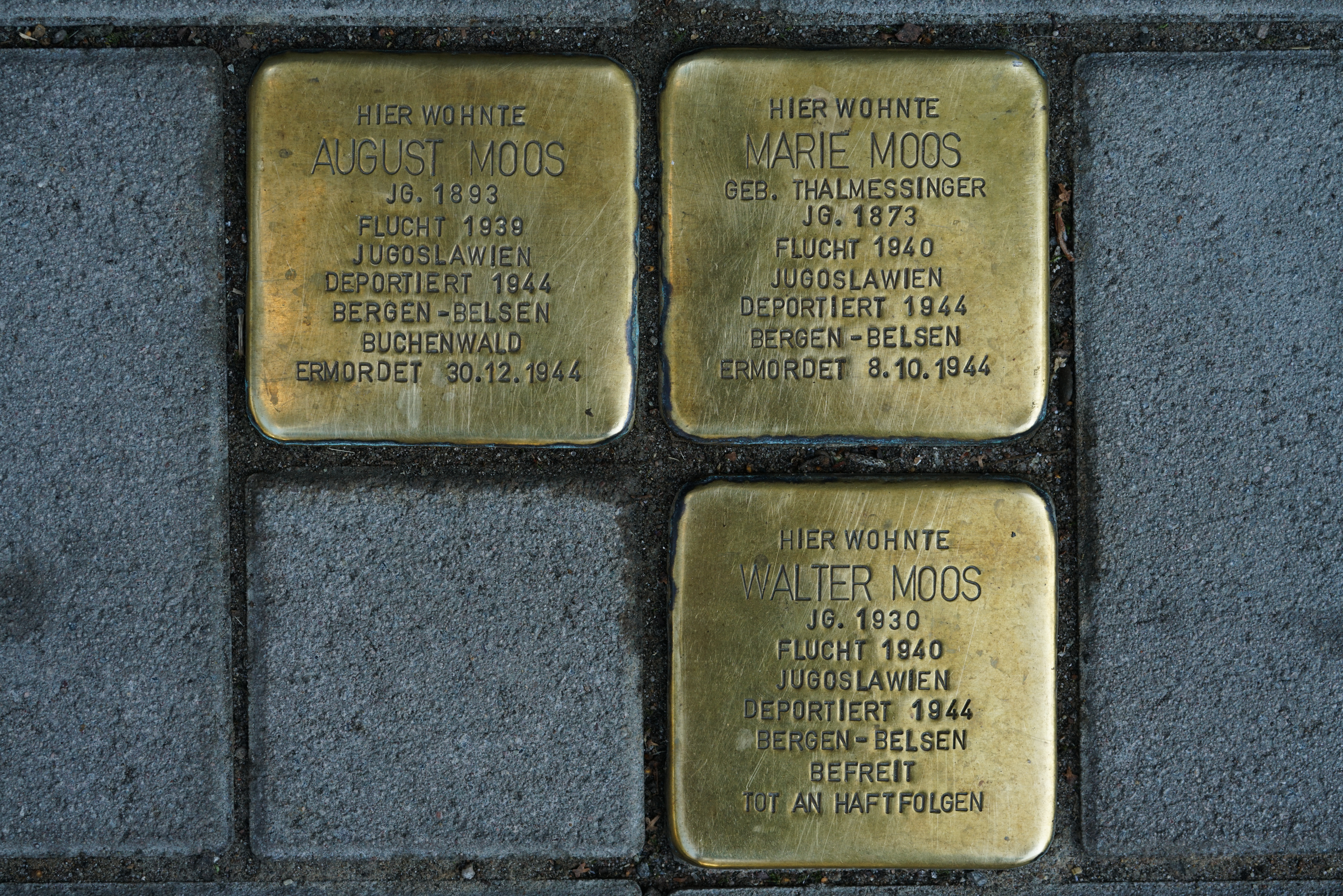 Stolperstein dedicated to August, Marie, Walter Moos